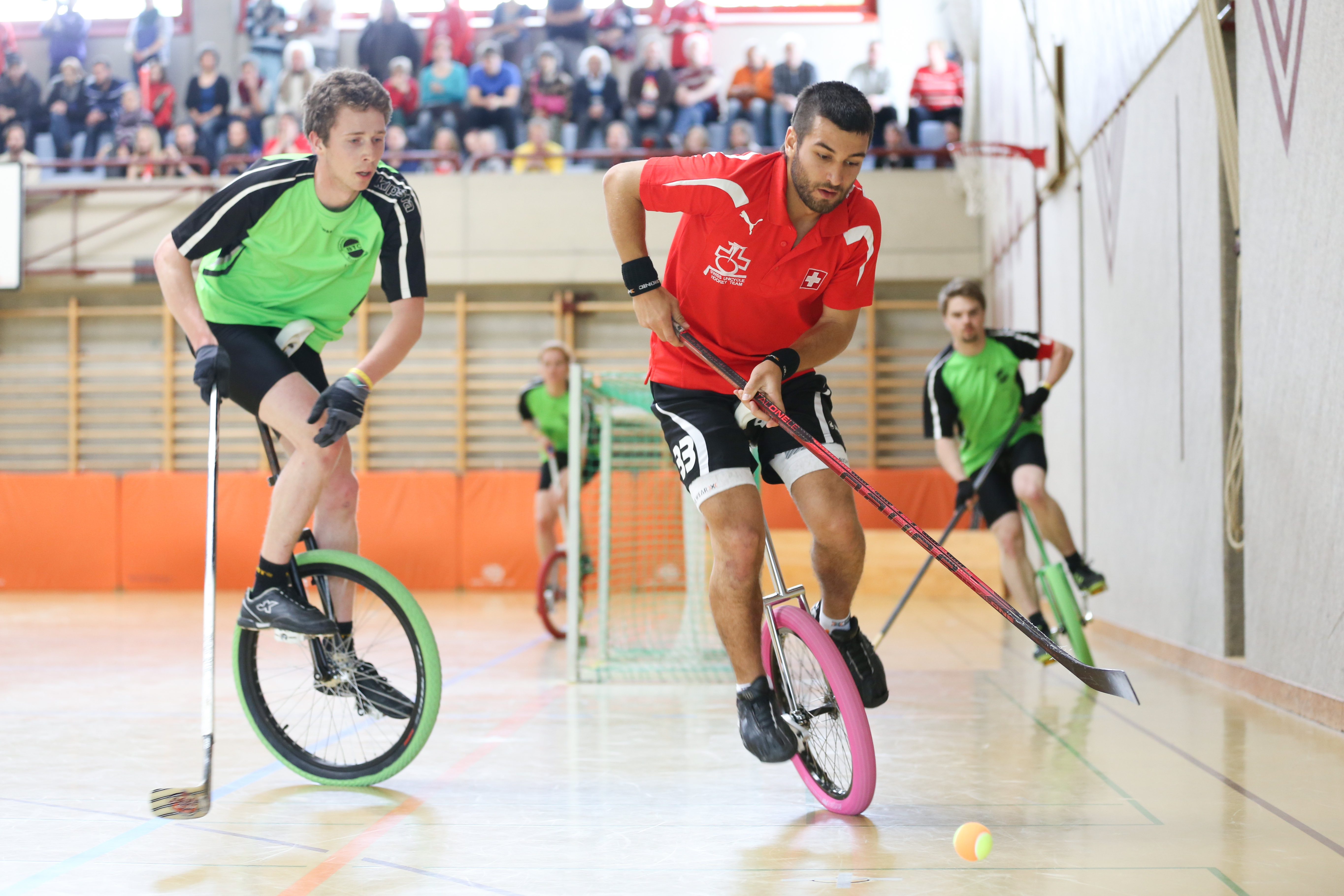 Unicycle hockey players at Eurocycle 2013, Langenthal, Switzerland